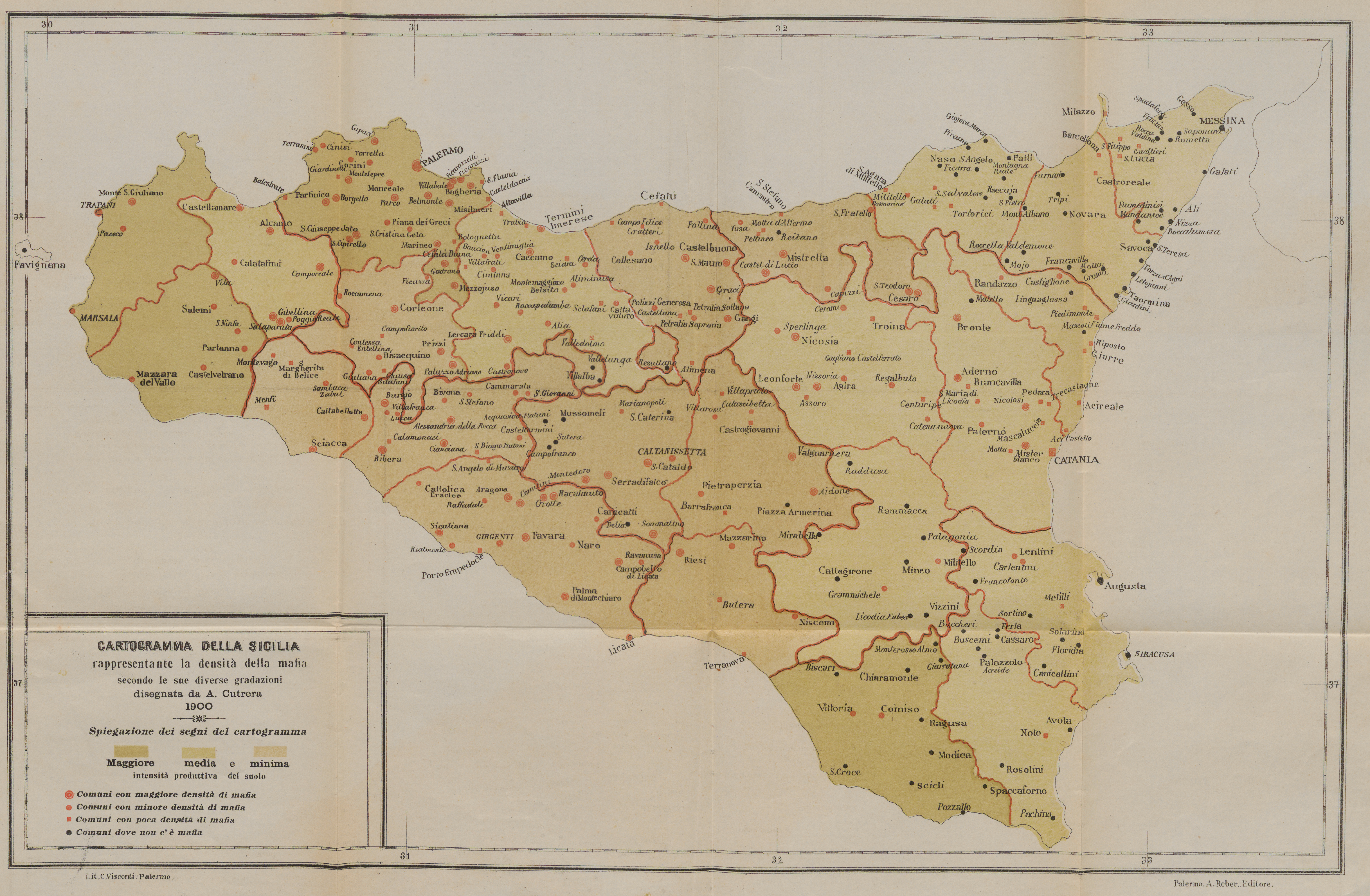 A map marking towns with Mafia activity in Sicily in 1900. Towns with Mafia activity are marked with red dots. Towns with no Mafia activity are marked with black dots. Each province is shaded according to its agricultural productivity (intensita produttiva del suolo).